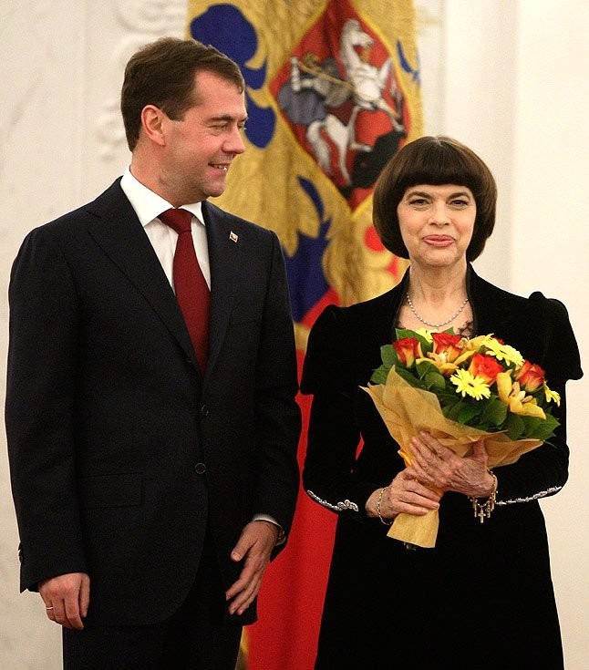 Dimitry Medvedev and the French singer Mireille Mathieu at a reception on the occasion of the celebration of National Unity Day. Mathieu was presented with state awards of the Russian Federation for her contribution to strengthening friendship, cooperation and cultural ties with Russia.